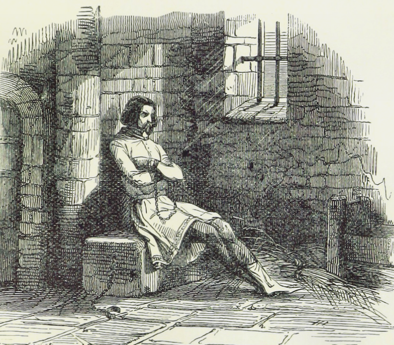 Ferdinand, Count of Flanders, captive after the Battle of Bouvines (1214)